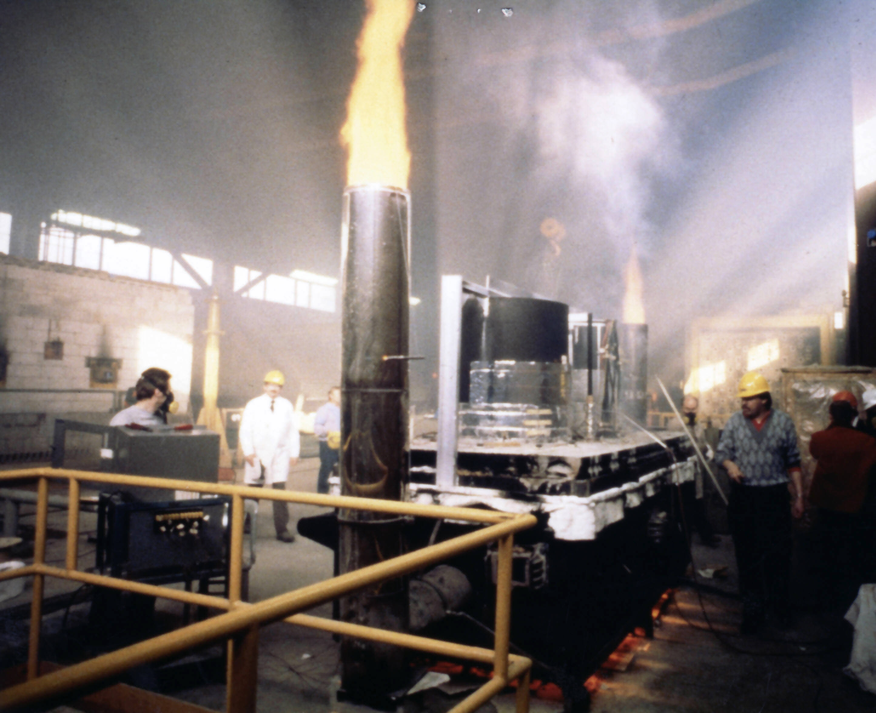 Fire test in full swing. Sponsors paceing the assembly, looking and listening for "hot spots".